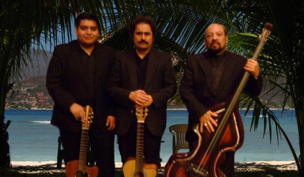 Trio romantico